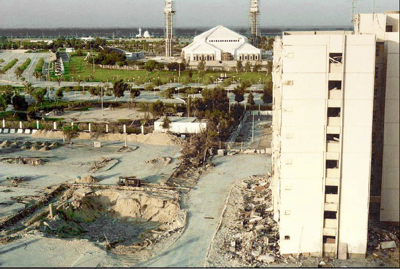 Khobar Towers Bombing. The original caption is The crater resulting from the bomb measured 85 feet wide and 35 feet deep.